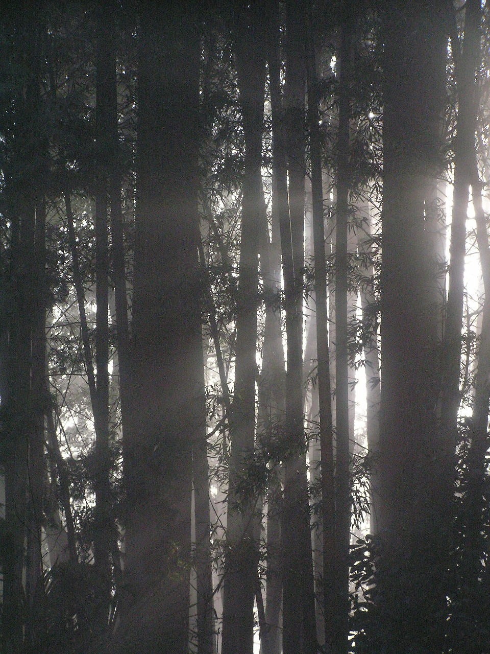 Asahi cypress forest, Japan